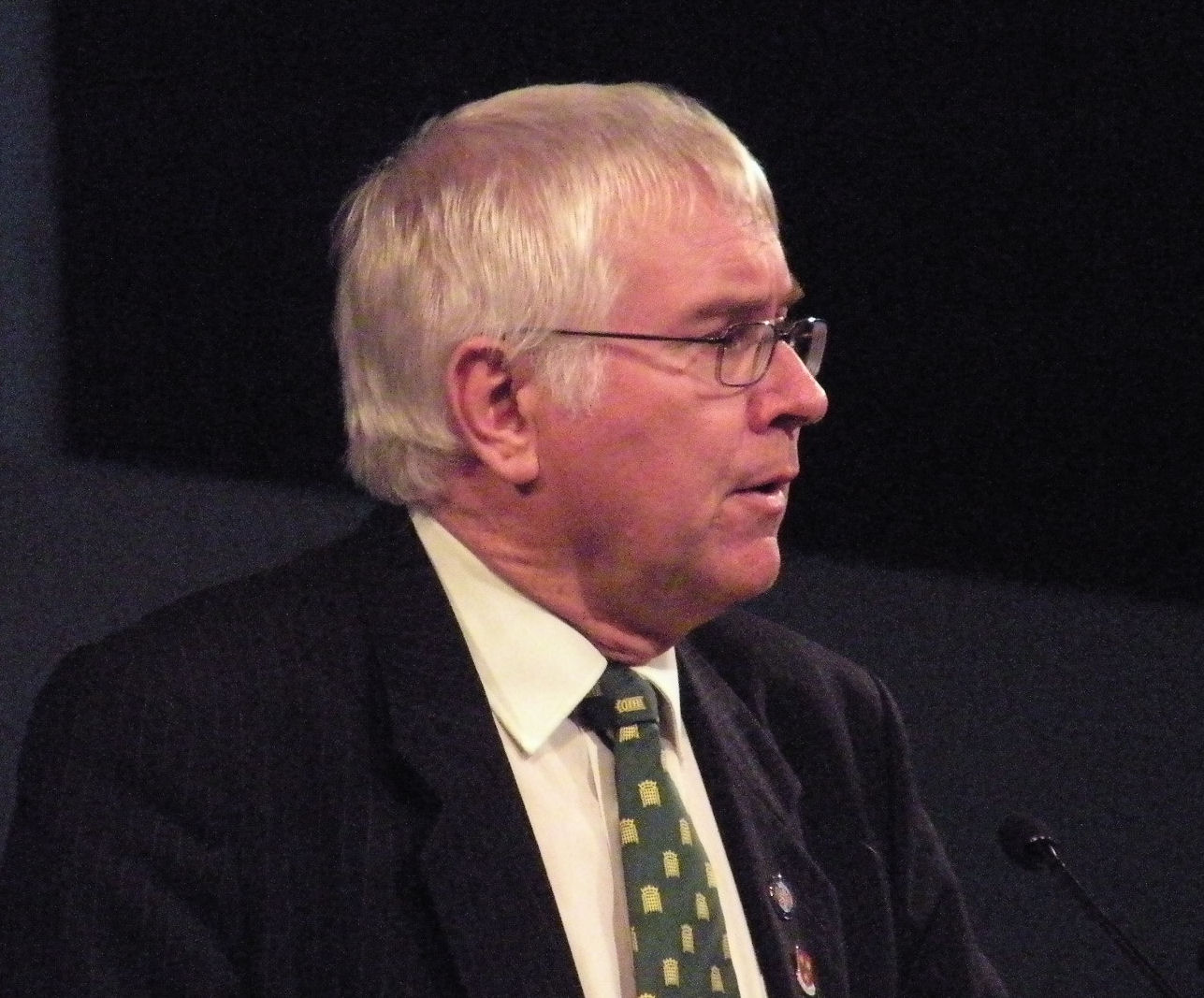 Bob Russell MP addressing a Liberal Democrat conference in the Bournemouth International Centre